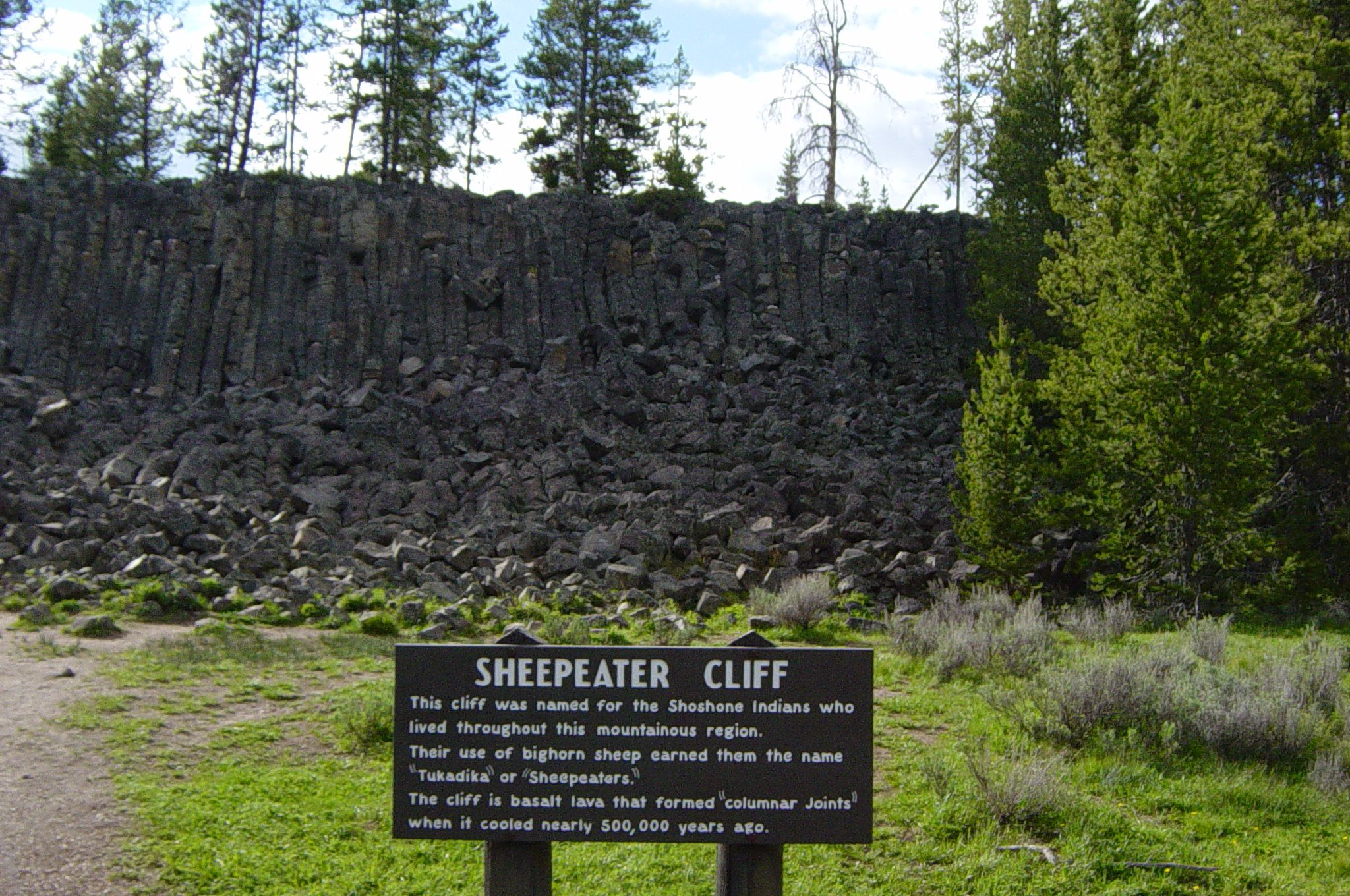 Photo taken in the Yellowstone area.